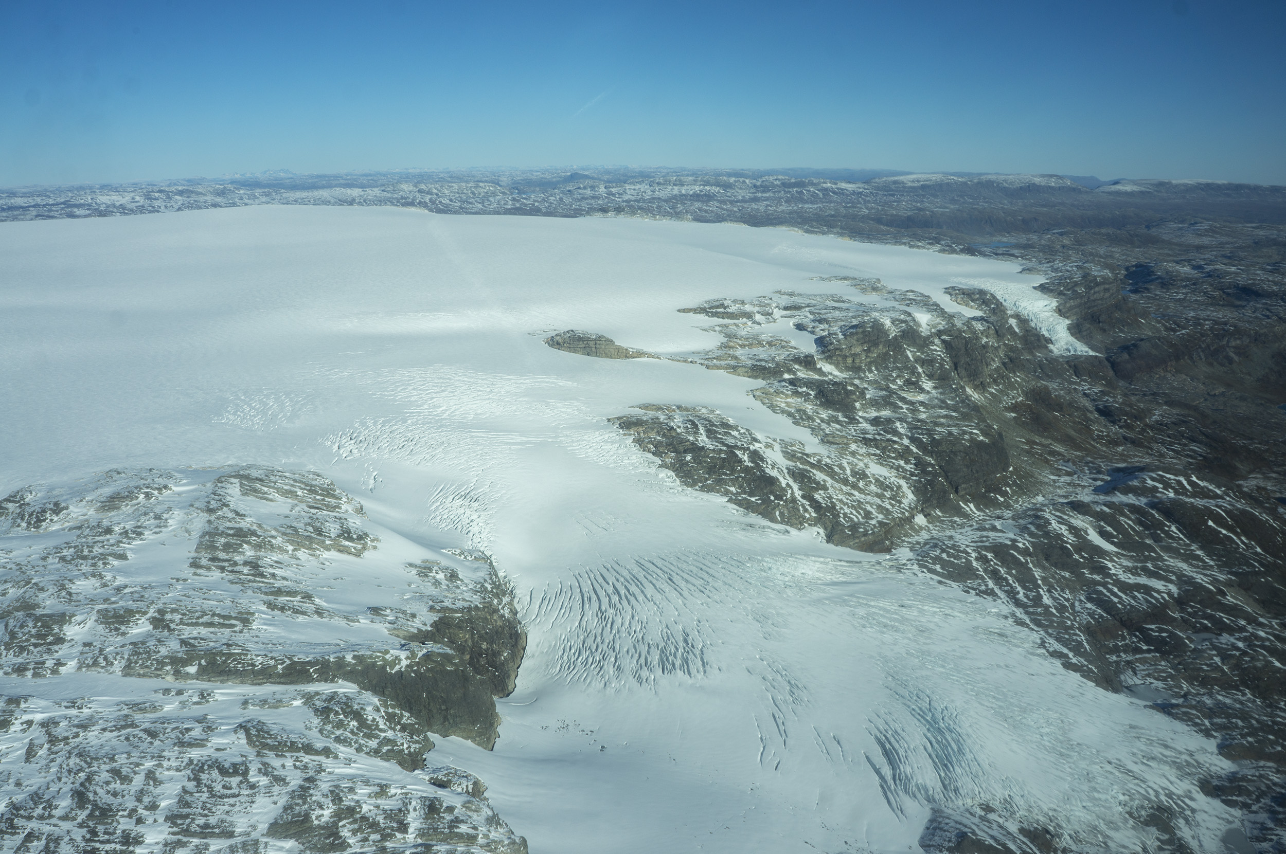 Hardangerjøkulen glacier in Norway, aerial photo seen from soutwest towards northeast. In the foreground: Vestra Leirebottsskåka.